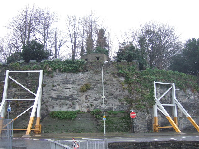 Cardigan Castle: 1000 years of history There has been a castle here guarding the Teifi bridge at the entrance to the town since the 11thC. In the 12thC. it became the first stonebuilt Welsh castle and the site of the first eisteddfod. It subsequently changed hands between the Welsh and the Normans several times and then, after 4 centuries of calm, the castle was destroyed by Oliver Cromwell's army. In 1800 a mansion, Castle Green House, was built within the ruins. During WW2 the castle's defensive position was employed as a site for a pillbox which can be seen here. Privately owned,the site was neglected, the house fell into disrepair and the walls have needed shoring up for many years but in 2003 Ceredigion CC finally managed to purchase the castle with the help of a vigorous local campaign and extensive fundraising iniatives. A major restoration programme is now under way.